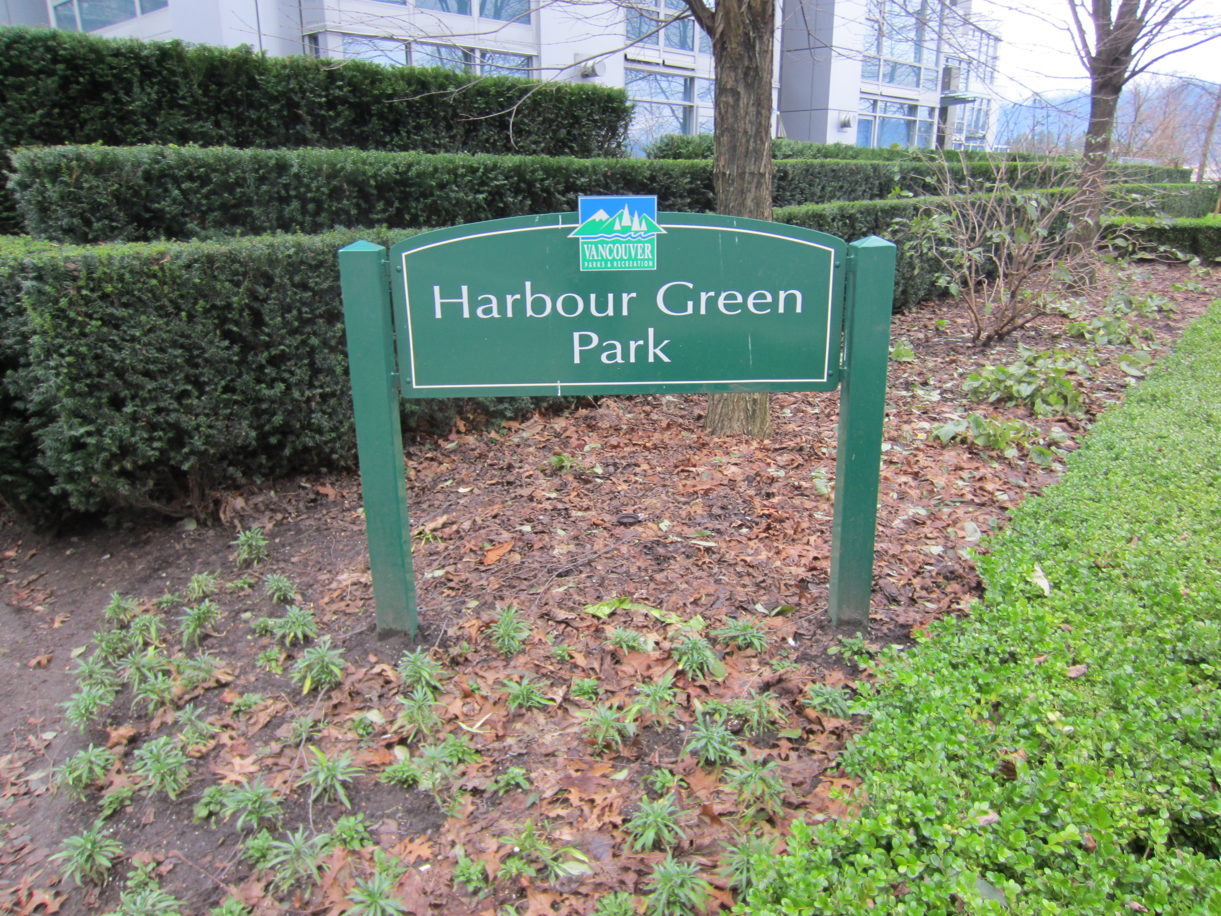 Harbour Green Park, Vancouver, British Columbia (2012)